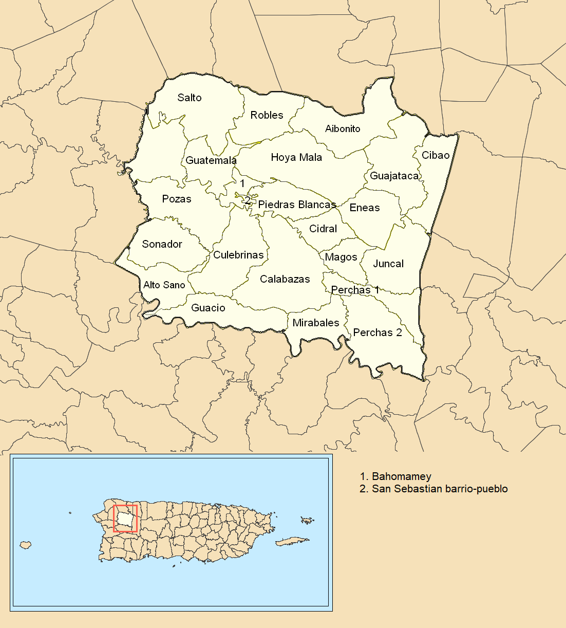 Barrios in the municipality. Map scale is 1:200,000